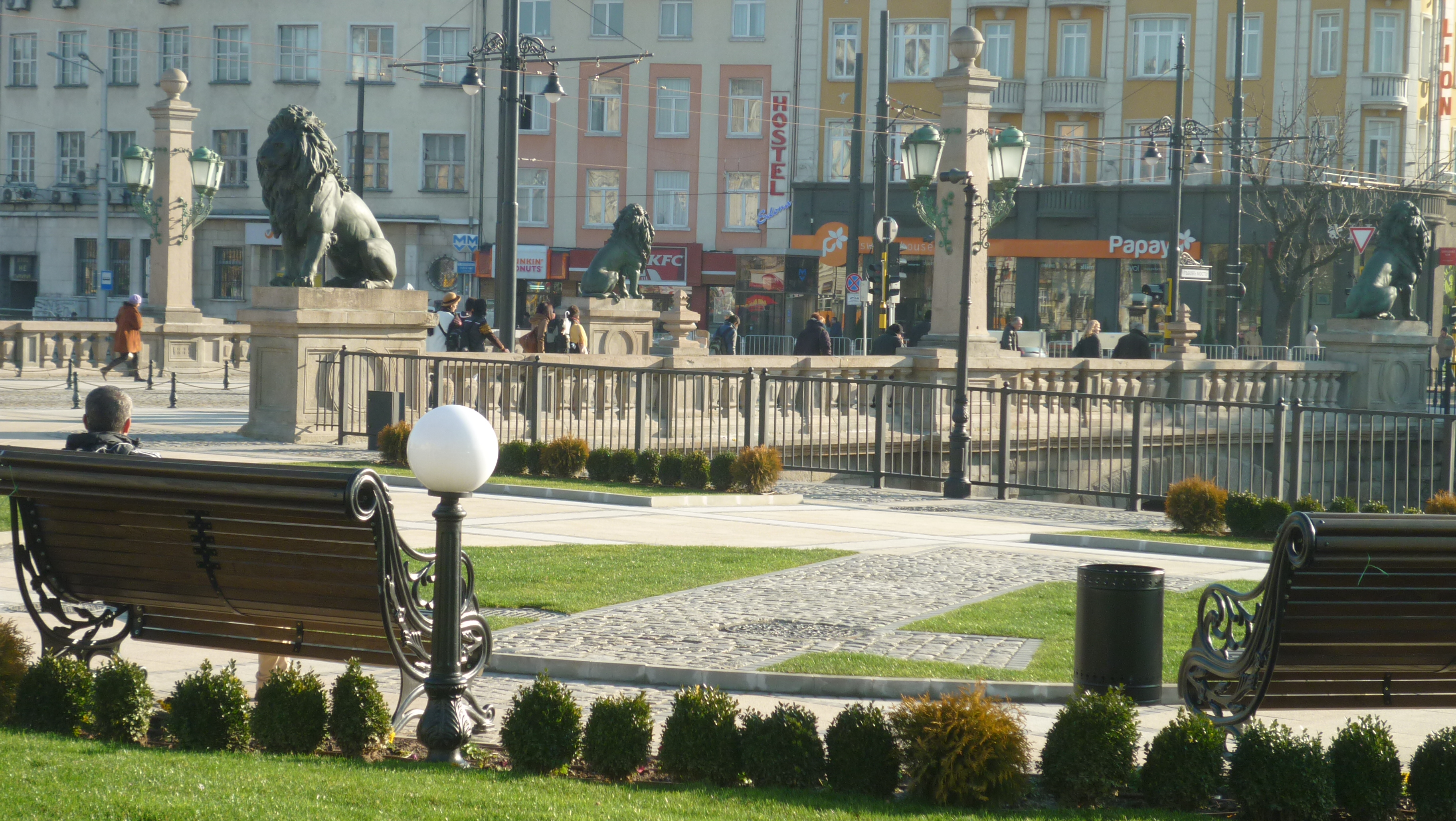 Photo of Lavov most, Sofia